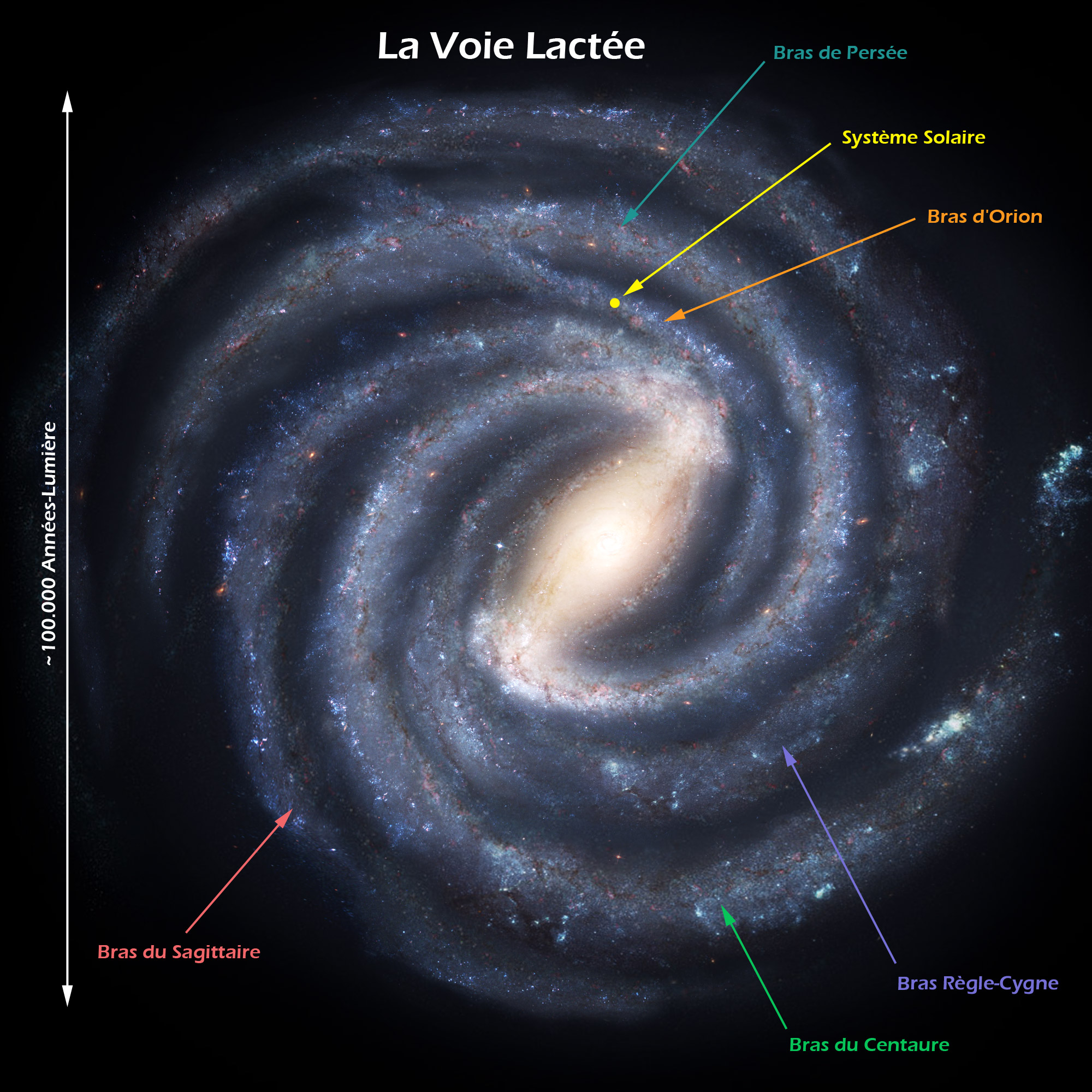 Artist renderer of Milky Way, with captions in french. Made from different sources : Hubble2005-01-barred-spiral-galaxy-NGC1300.jpg, M101 hires STScI-PRC2006-10a.jpg, Milky Way 2010.jpg.